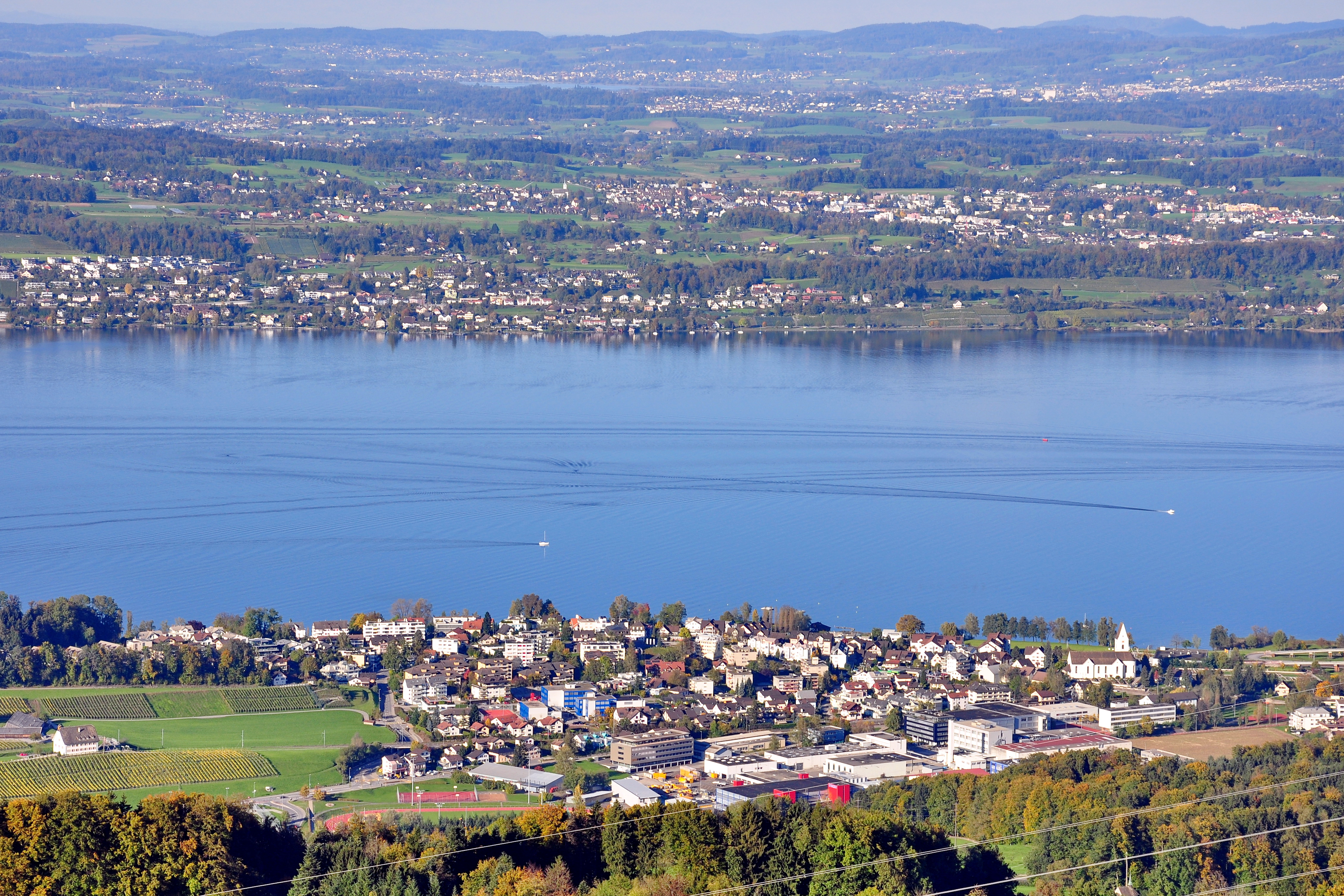 View from the Etzel mountain in Switzerland towards Etzel Kulm : Zürichsee, Stäfa on lakeshore, Hombrechtikon, and Glatttal valley, Pfäffikersee and Wetzikon in the background, Freienbach in the foreground.